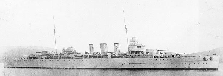 Photo #: NH 52686 HMAS Australia (Australian Heavy Cruiser, 1928) Halftone reproduction of a photograph taken in 1928, soon after the ship was completed and before her smokestacks were raised. Caption cropped from top of original image. Removed caption read: "Photo # NH 52686 HMAS Australia shortly after completion, with the original short smokestacks"